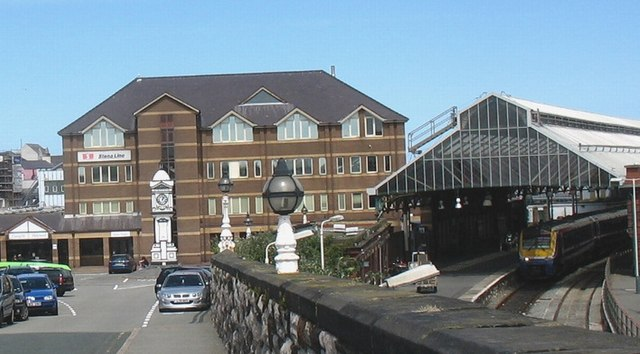 Stena House and the covered section of Holyhead Station